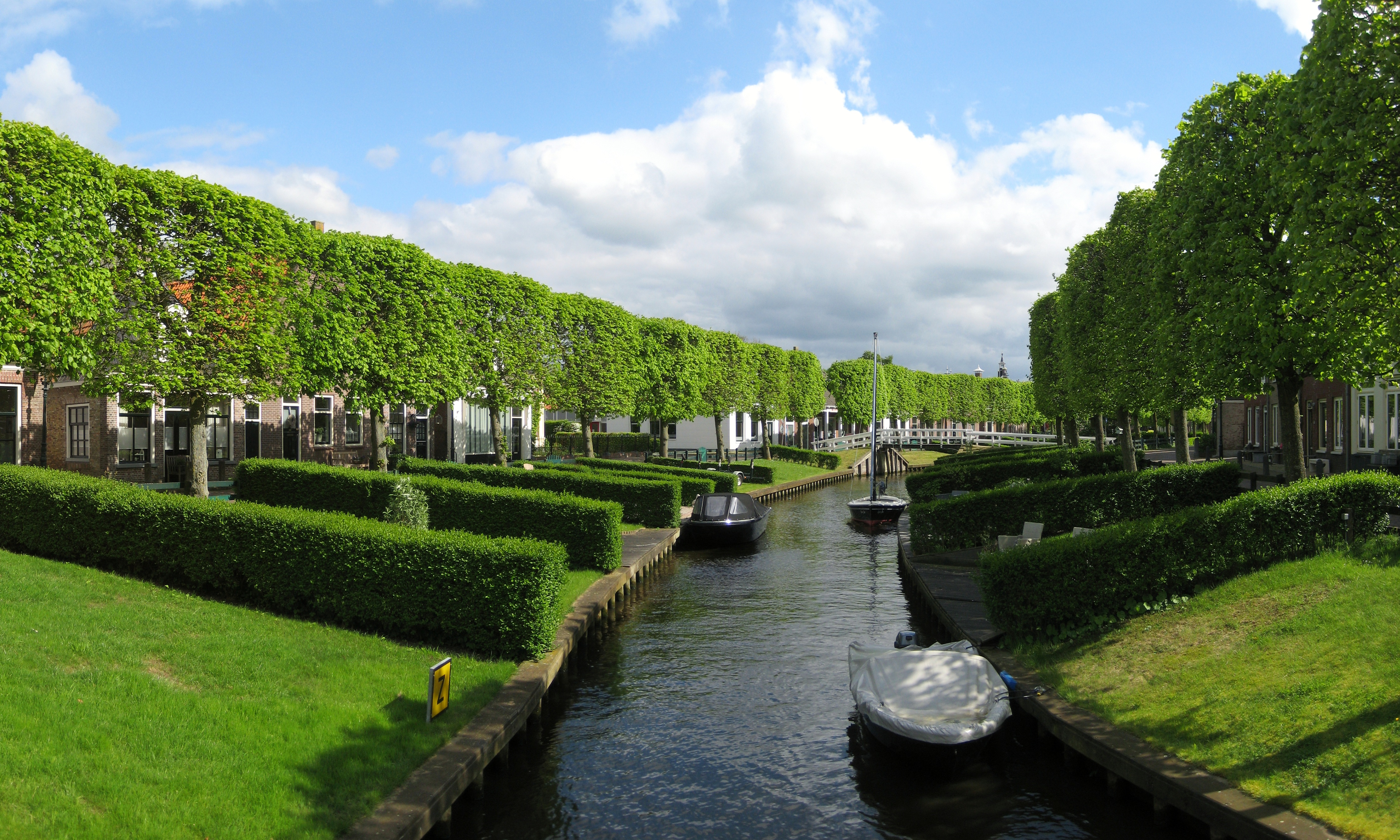 The Ee, a small river in IJlst, a city in the Dutch province of Fryslân.